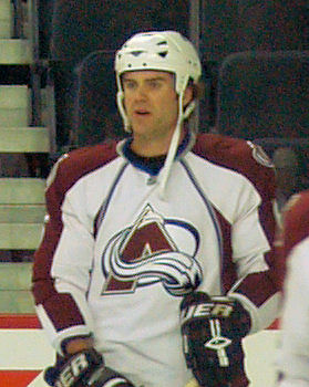 Jeff Finger in a warm up before a game in Calgary, Alberta